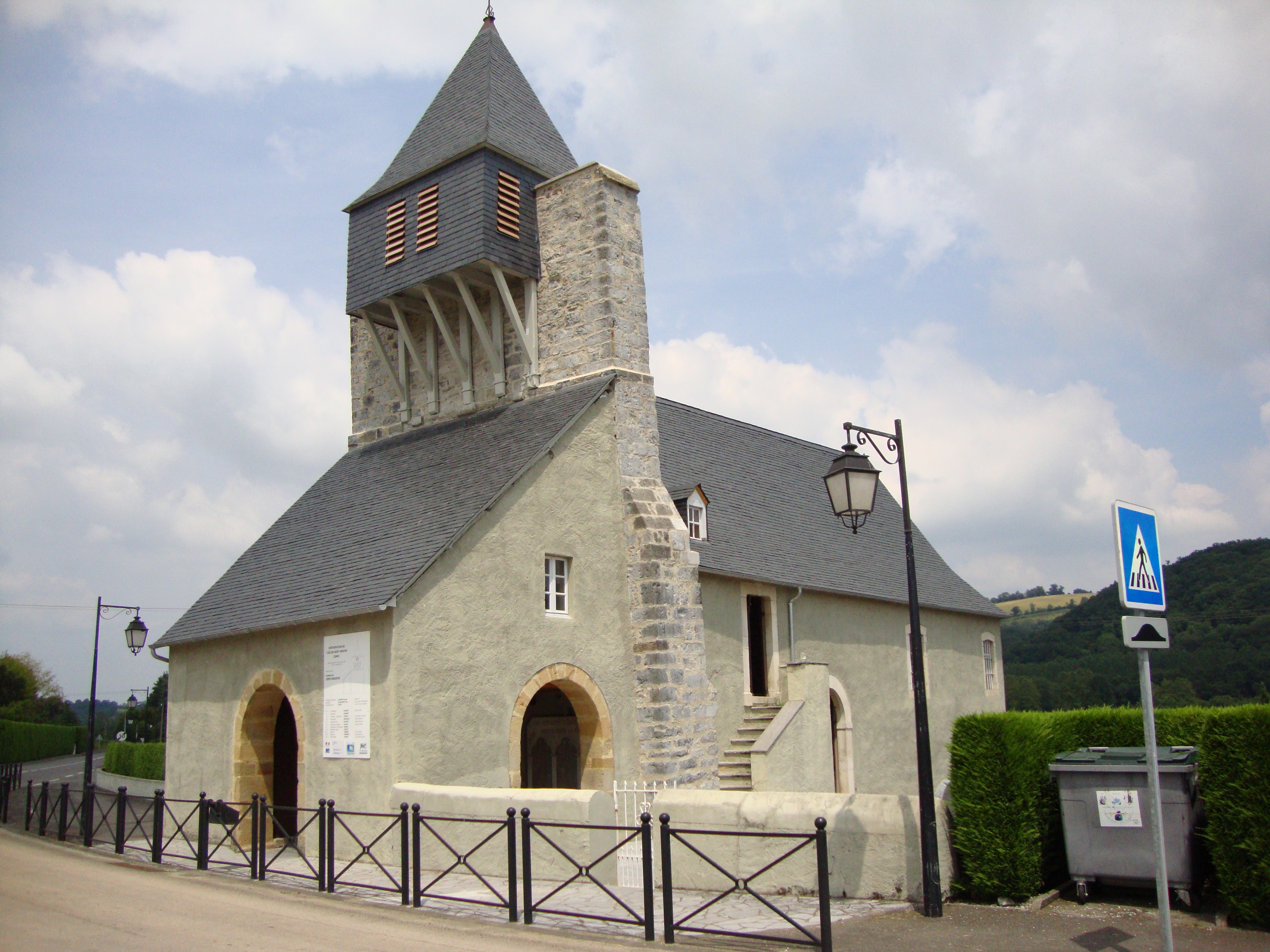 Espès (Espès-Undurein, (Pyr-Atl, Fr) Église